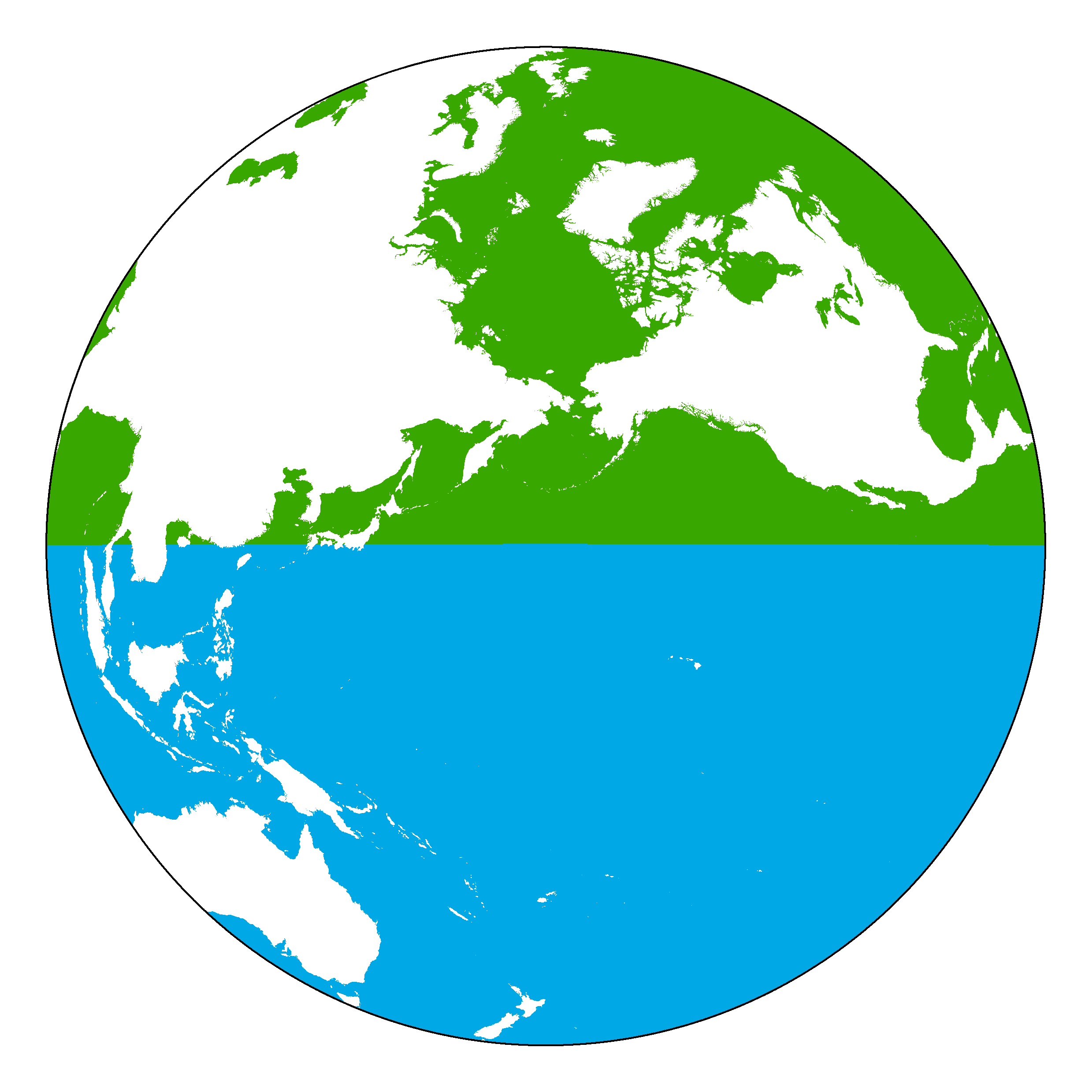 Land hemisphere on top, water hemisphere on bottom. Equal-area projection.